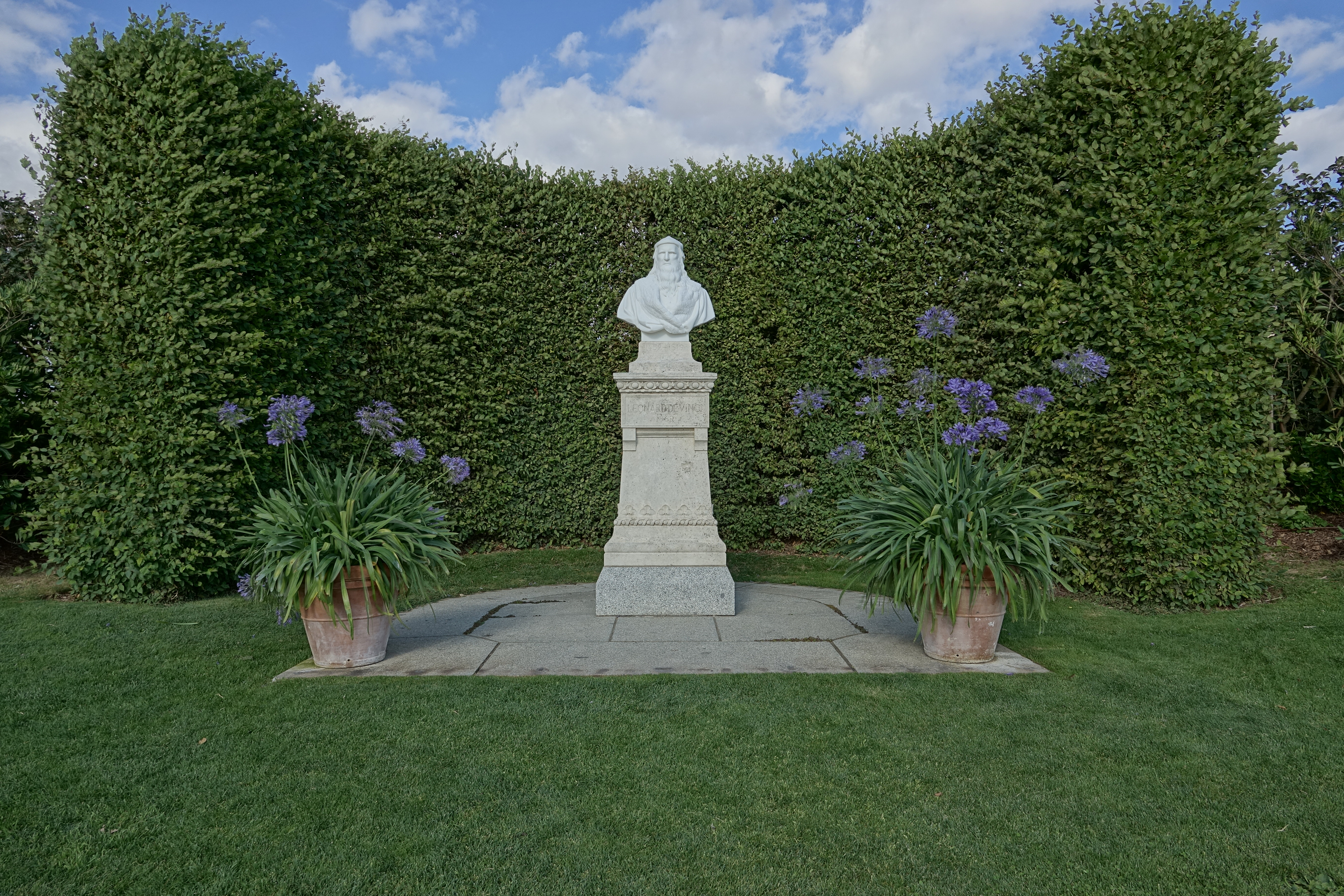 Bust of Léonard de Vinci in park of château d'Amboise (Indre-et-Loire, France).